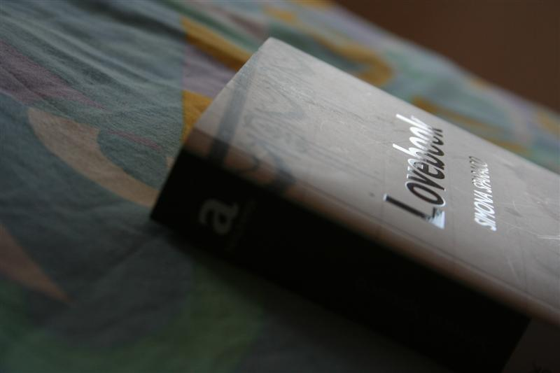 Love in the time of Facebook. Simona Sparaco - Lovebook